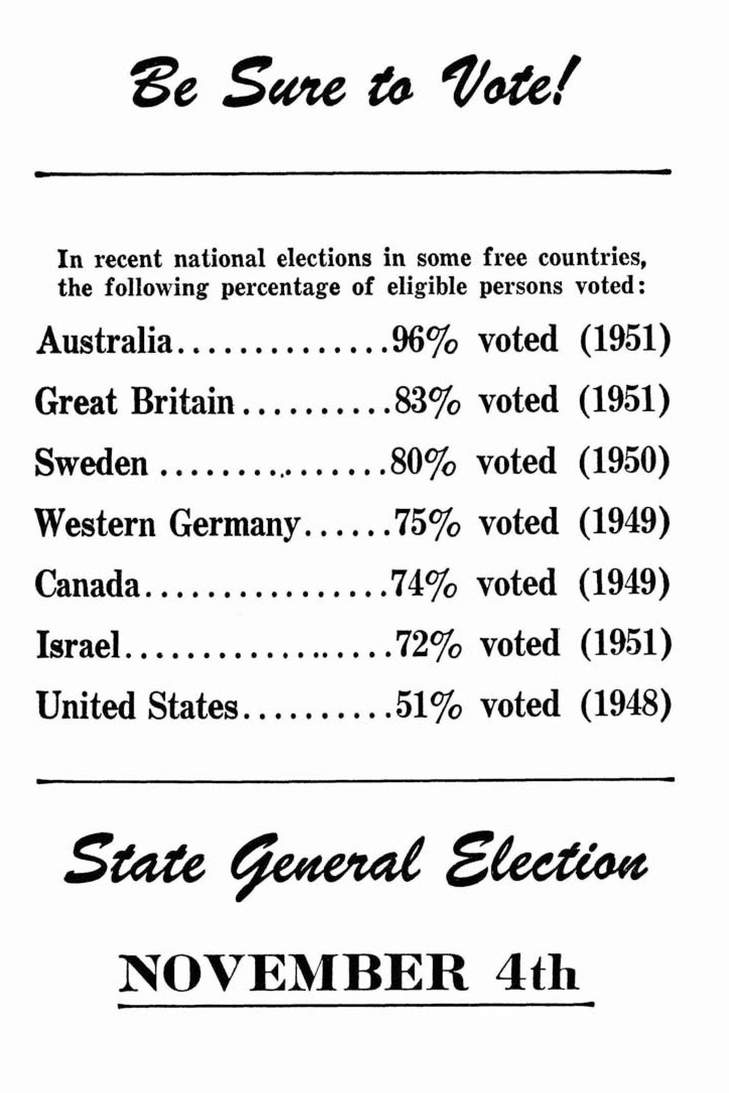 Washington official Voters' Pamphlet provided to all voters in Washington by the Washington Secretary of State's Office. Published without a copyright notice so public domain.